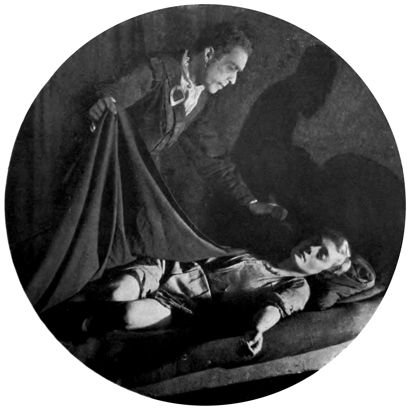 Promotional photograph from the Broadway production of The Prince and the Pauper, featuring William Faversham and Ruth Findlay Caption reads as follows: Scene in "The Prince and the Pauper" at the Booth Theatre Miles Hendon (William Faversham) soldier of fortune, acts as a tender nurse to the worn-out little King of England (Ruth Findlay).